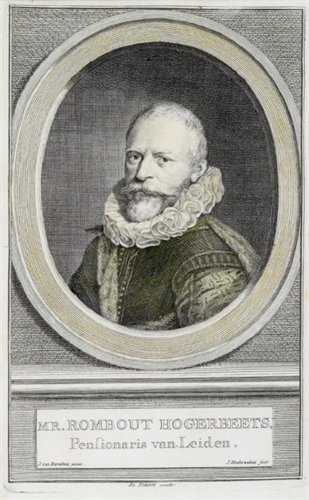 Engraved portrait of Rombout Hogerbeets, pensionary of Leiden, who was sentenced to perpetual imprisonment, together with Hugo Grotius, in May, 1619, and shared his Loevestein jail. Rombout Hogerbeets (Hoorn, 24 June, 1561 — Wassenaar, 1625) was a Dutch jurist and statesman.